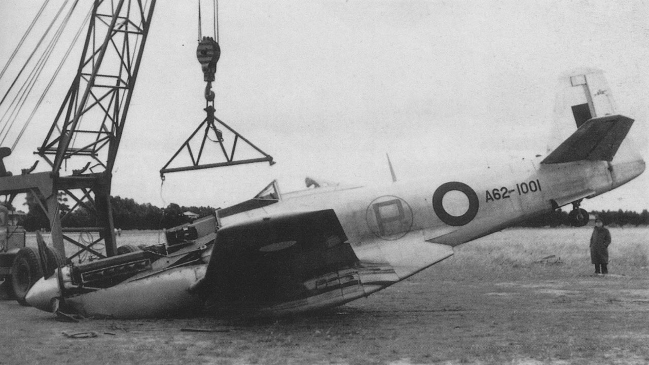 Testing of the CA-15 commenced in 1946. These flights came to an abrupt ending when Flt Lieut J.A.Lee Archer suffered a hydraulic failure (later found to be a leaking ground test gauge) on approach to Point Cook on Dec 10th 1946, which left him no choice but to orbit and burn off fuel. The main gear was only halfway down and unretractable and could not be lowered any further. The tail wheel was down and locked though. On landing this struck the strip first causing the aircraft to porpoise and finally the airscoop dug in. The aircraft settled back on the fuselage and skidded to a stop, heavily damaged.